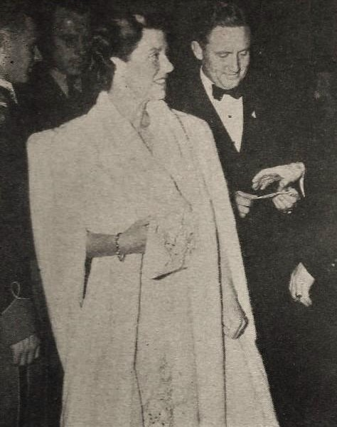 Louise Tracy and Spencer Tracy, 1939